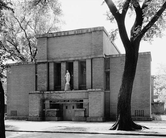 First Congregational Church of Austin, 5701 West Midway Park, Chicago (Cook County, Illinois) (cropped) This file comes from the Historic American Buildings Survey (HABS), Historic American Engineering Record (HAER) or Historic American Landscapes Survey (HALS). These are programs of the National Park Service established for the purpose of documenting historic places. Records consist of measured drawings, archival photographs, and written reports. This tag does not indicate the copyright status of the attached work. A normal copyright tag is still required. See Commons:Licensing. This work is in the public domain in the United States because it is a work prepared by an officer or employee of the United States Government as part of that person’s official duties under the terms of Title 17, Chapter 1, Section 105 of the US Code. Note: This only applies to original works of the Federal Government and not to the work of any individual U.S. state, territory, commonwealth, county, municipality, or any other subdivision. This template also does not apply to postage stamp designs published by the United States Postal Service since 1978. (See § 313.6(C)(1) of Compendium of U.S. Copyright Office Practices). It also does not apply to certain US coins; see The US Mint Terms of Use. This file has been identified as being free of known restrictions under copyright law, including all related and neighboring rights. Object location41° 53′ 19″ N, 87° 46′ 05″ W